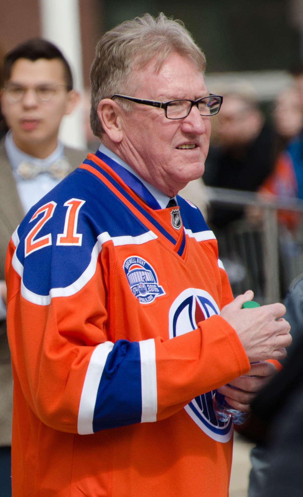 Farewell Rexall Place - Oilers 2016